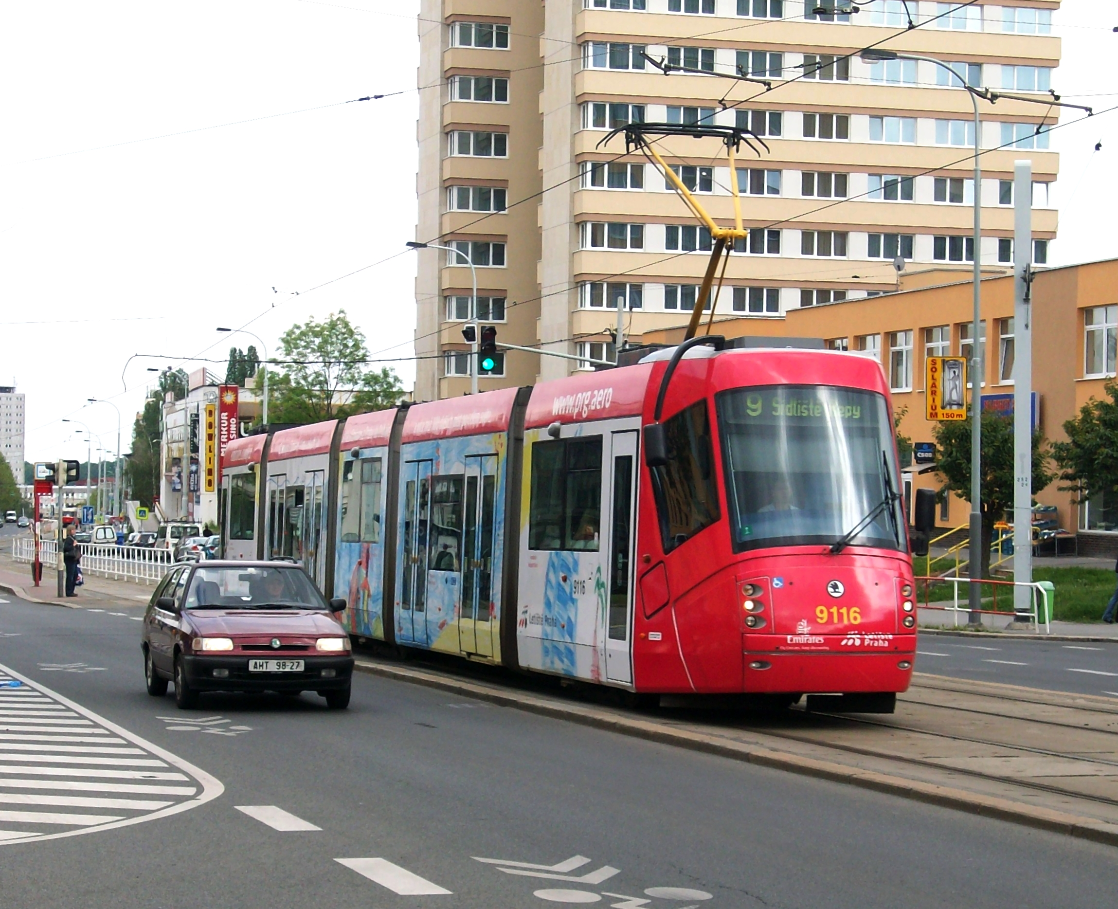 Škoda 14T in Prague